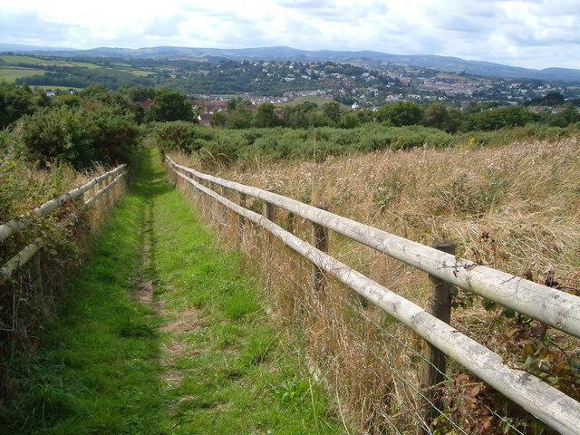 View from Milber Down. Coffinswell Footpath 4 drops to the west to join the Milber Lane bridleway, with the Aller Park estate beyond. Further west is Wolborough Hill above Newton Abbot, with Dartmoor in the distance.